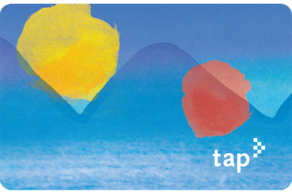 This is the new TAP card for the LACMTA.